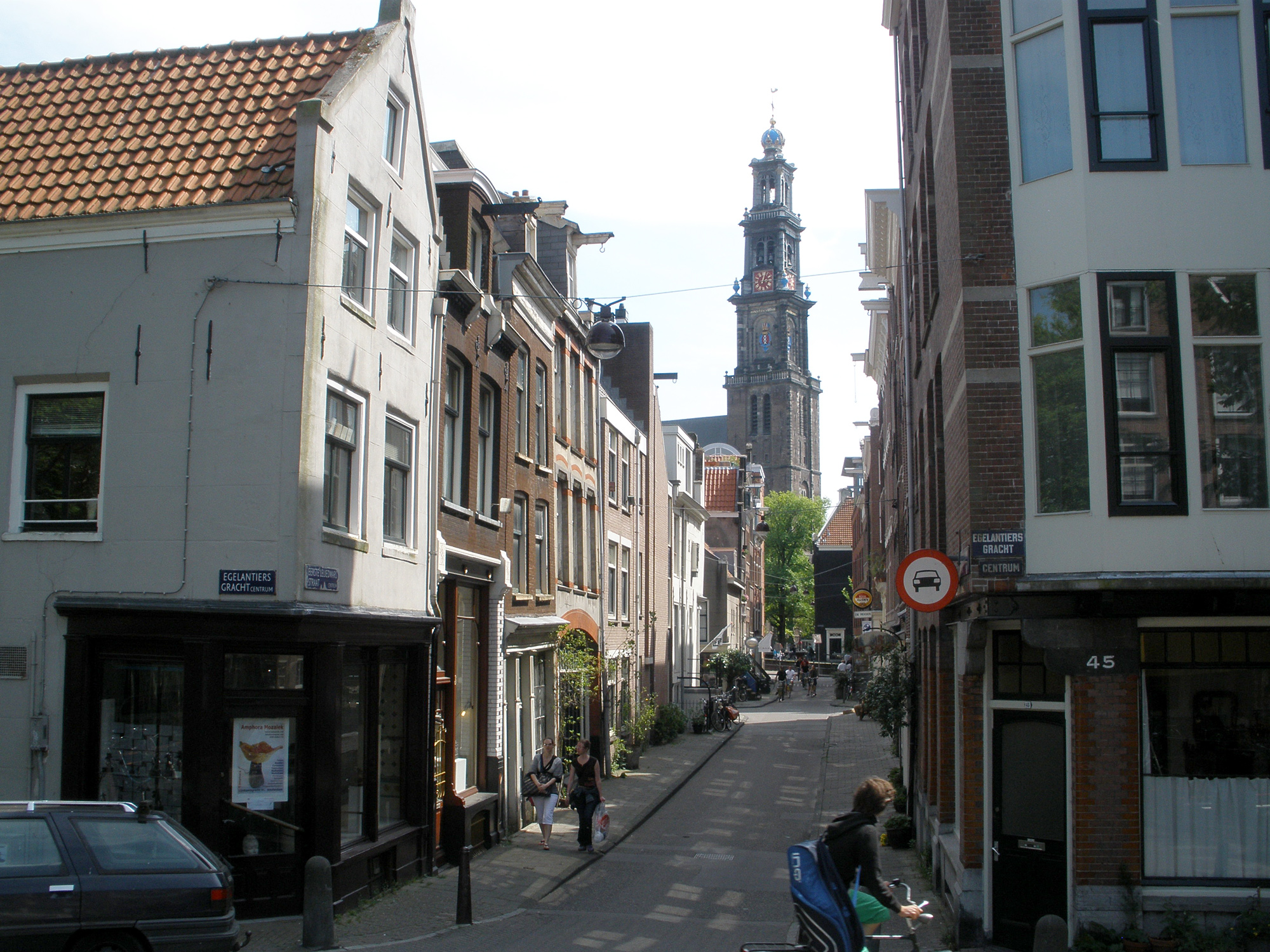 Eerste Leliedwarsstraat in the Jordaan district of Amsterdam, looking south from the bridge across the Egelantiersgracht canal. Note the Bloemgracht canal and Westerkerk church in the background